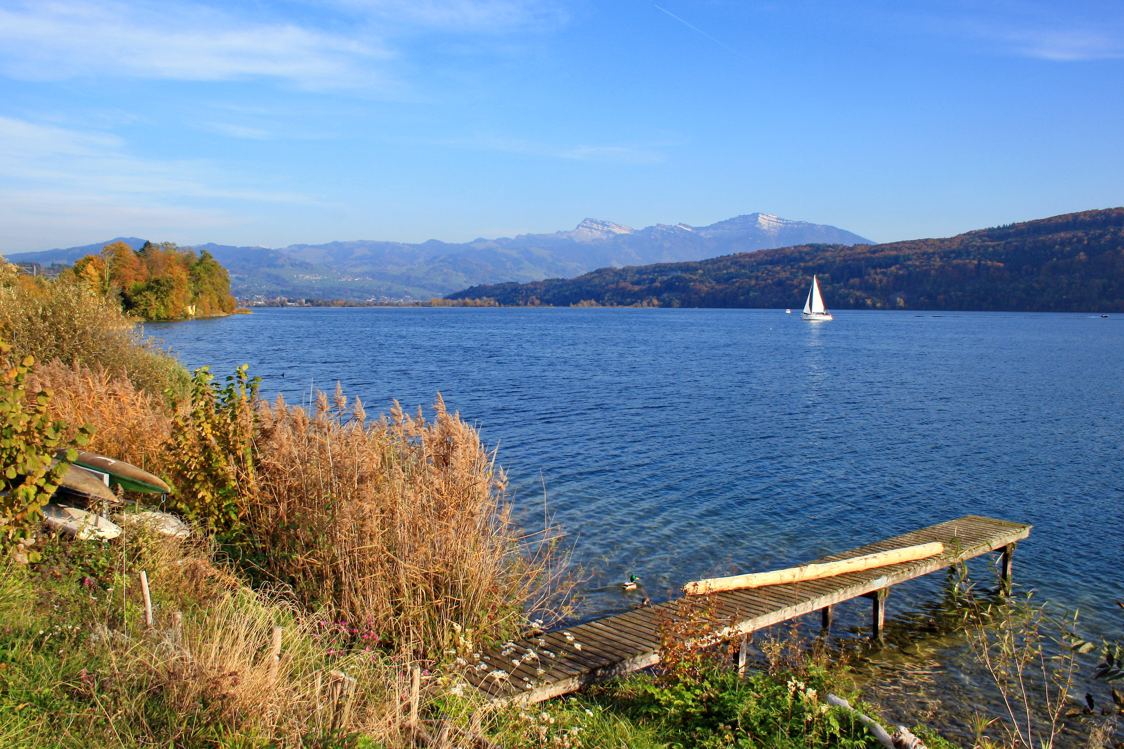 Obersee (upper Lake Zürich), as seen from Bollingen, Schmerikon (to the left) and Uznach in the far background.